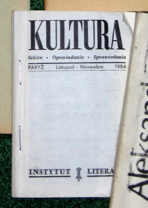 Polish samizdat publication Paryska Kultura among underground books & brochures printed in 1980's